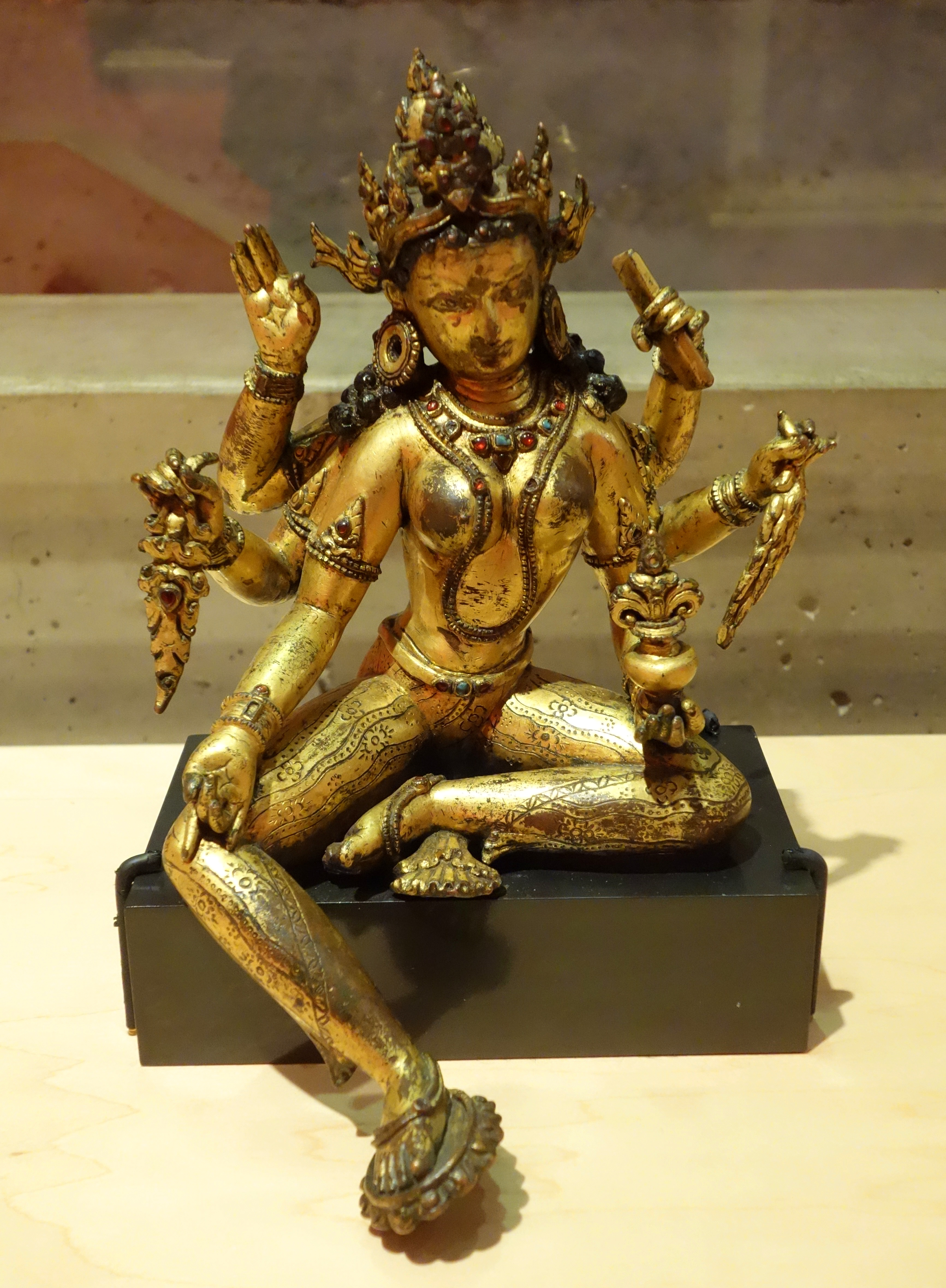 Exhibit in the Berkeley Art Museum and Pacific Film Archive, 2625 Durant Avenue #2250, Berkeley, California, USA. This museum is part of the University of California, Berkeley. This artwork is in the public domain because the artist died more than 70 years ago. Photography of this exhibit was permitted without restriction.